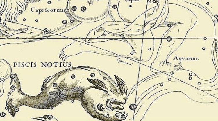 Pisces Constellation